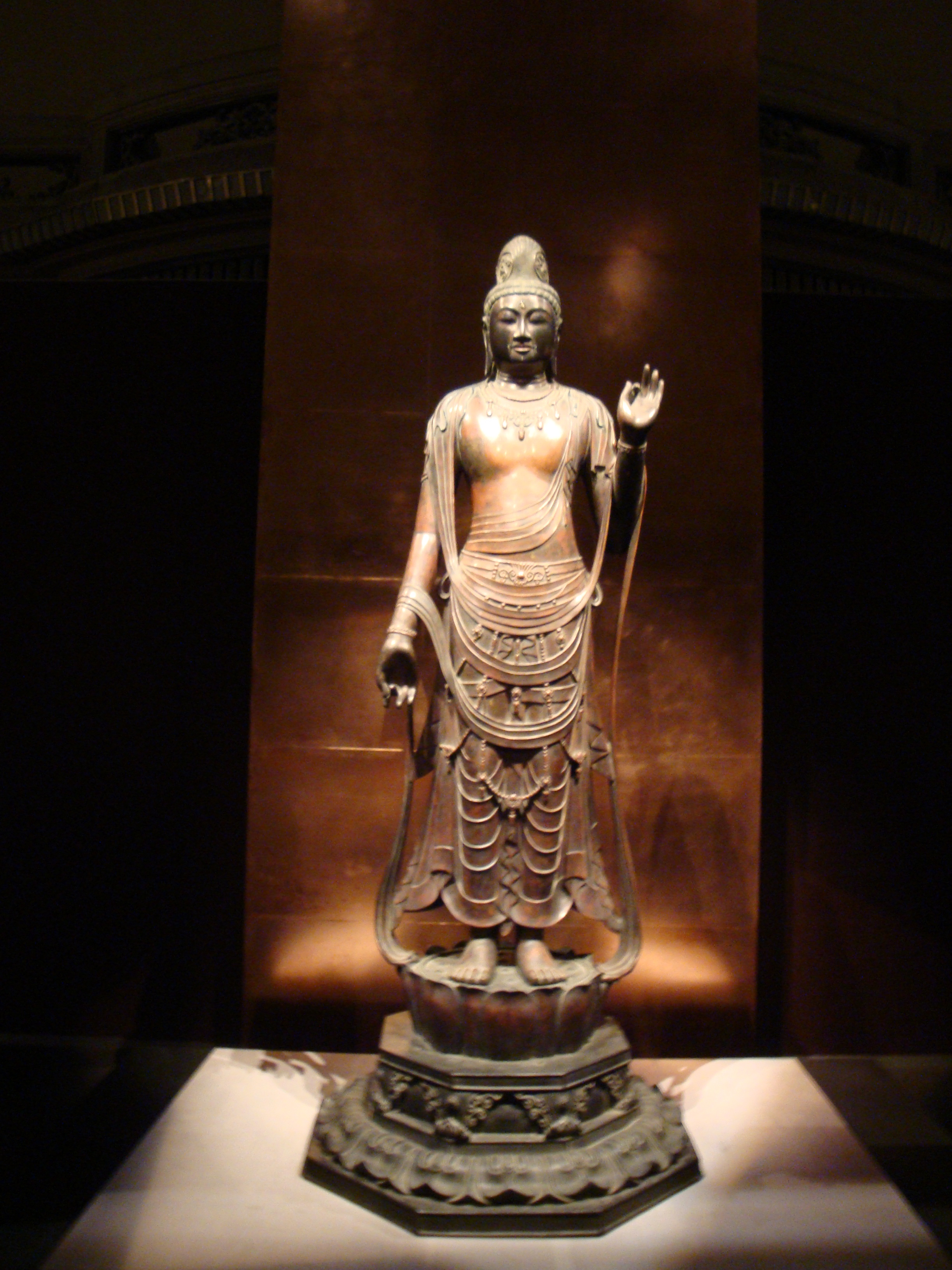 Copy of the statute of Avalokitesvara in Yakushiji Temple. Original from 7th-8th century A.D. Collection of the Tokyo National Museum.